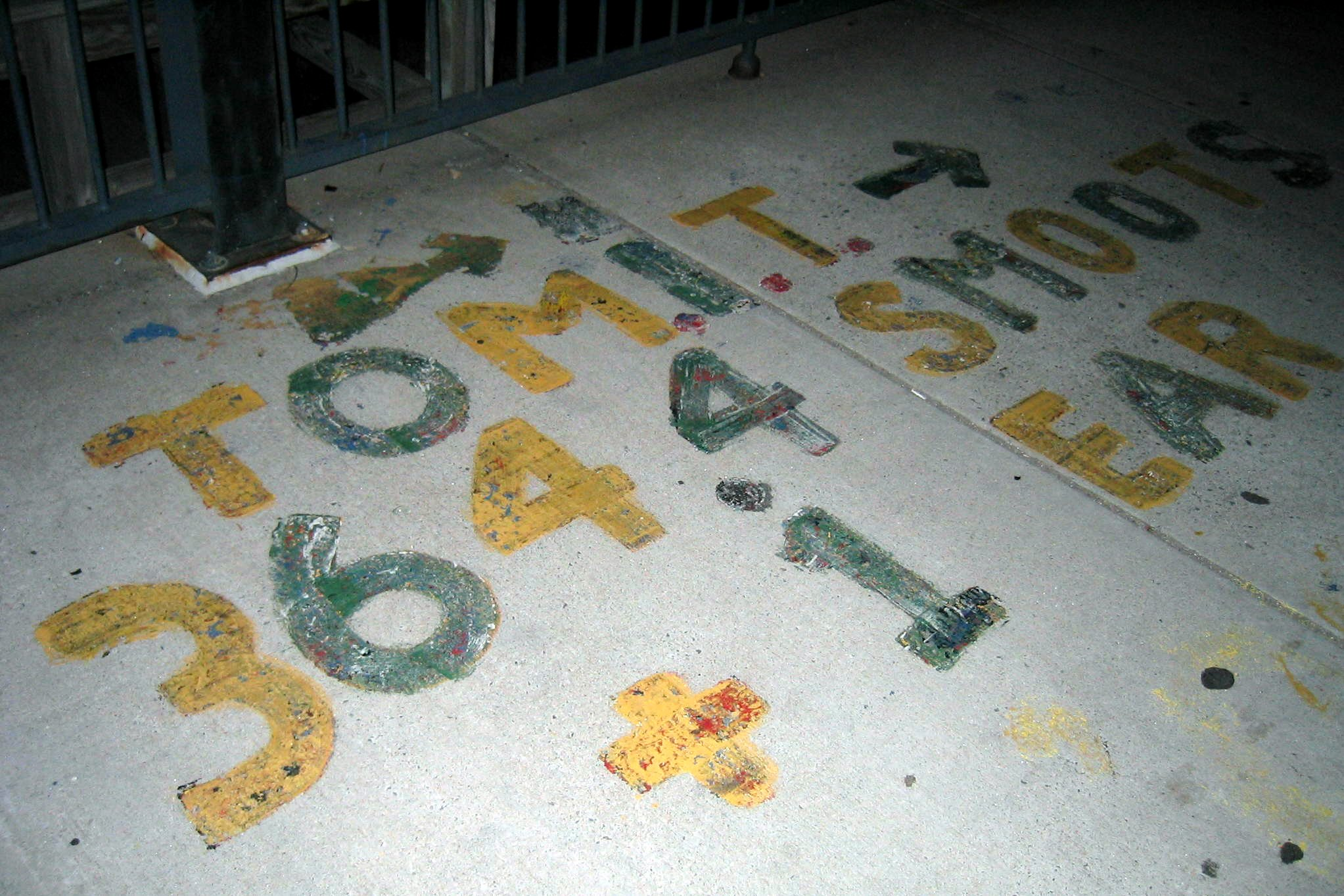 Cambridge: Harvard Bridge - 364.4 Smoots to MIT Taken in Boston, Massachusetts As described by the photographer: "The smoot is a nonstandard unit of length created as part of an MIT fraternity prank. It is named after an MIT fraternity pledge at Lambda Chi Alpha fraternity, Oliver R. Smoot (class of 1962), who in October, 1958 was rolled head over heels by his fraternity brothers to measure the length of the Harvard Bridge. The smoot is equal to his height (five feet and seven inches -- 1.70 m), and the bridge's length was measured to be "364.4 smoots plus one ear". Everyone walking across the bridge today sees painted markings indicating how many smoots they are from the Boston-side river bank. The marks are repainted each year by the incoming associate member class (similar to pledge class) of Lambda Chi Alpha. Markings typically appear every 10 smoots, but additional marks appear at other numbers in between. For example, the 70-smoot mark is omitted in favor of a mark for 69. The 182.2-smoot mark is accompanied by the words "Halfway to Hell" and an arrow pointing towards MIT. Each class also paints a special mark for their graduating year. The rival FIJI fraternity previously (as they currently do not have an active chapter at MIT) painted over the markings in purple, their fraternity color, only to have them soon repainted, presumably by Lambda Chi Alpha. The markings have become well-accepted by the public, to the point that during the bridge renovations that occurred in the 1980s, the Cambridge Police department requested that the markings be maintained, since they had become useful for identifying the location of accidents on the bridge. The renovations actually did them one better, by scoring the sidewalk on the bridge at 5'7" intervals, instead of the conventional six. "